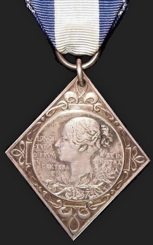 Victoria Diamond Jubilee Medal, Mayor 1897. Issue for mayors and provosts, in silver (Reverse)